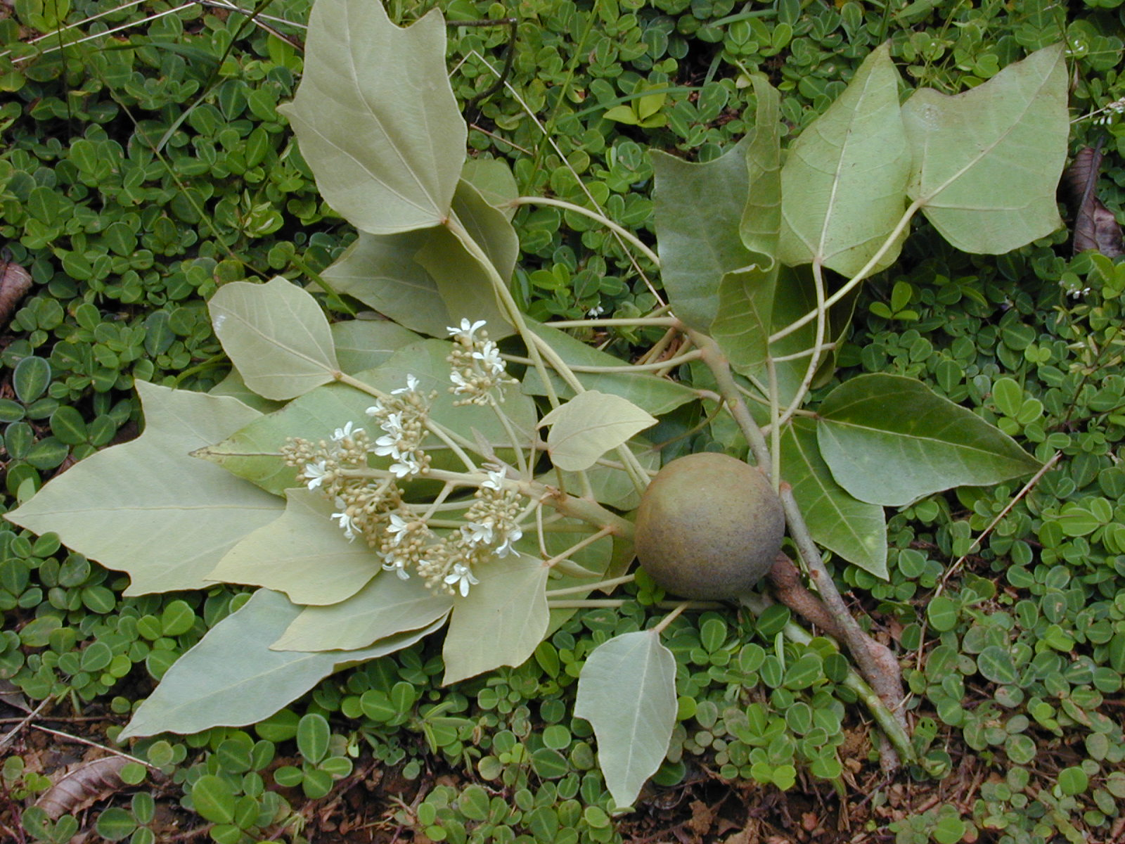 Aleurites moluccana (leaves and fruit). Location: Maui, Wahinepee